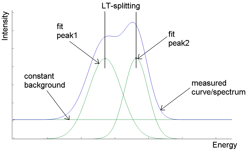 Spectrum plotted with Fityk[1]: Polariton LT splitting shown with a fictitious measurement result. Green: two exziton peaks with constant background, blue: resulting curve in measurement, interesting: the shift towards each other of the maxima positions due to the overlap of the two peaks